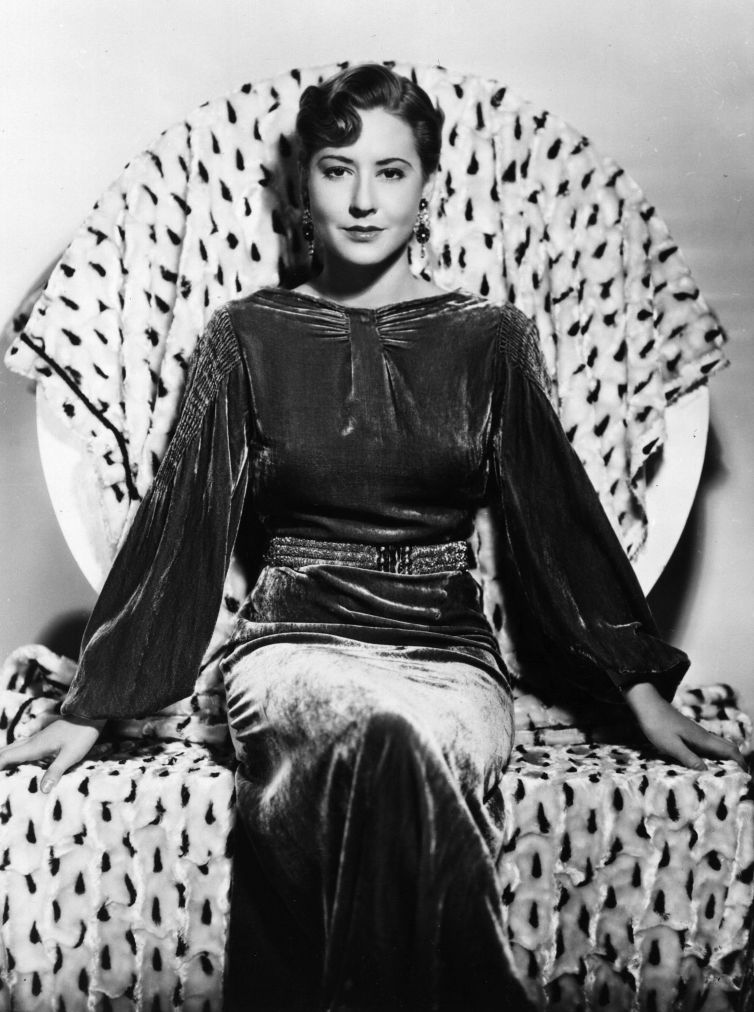 Publicity Photo of Mae Clarke, prior to appearing as 'Mary' in the film Fast Workers (1932).